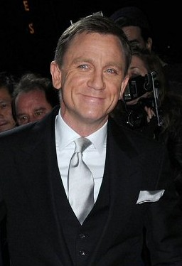 Daniel Craig (Quantum of Solace New York City Premiere, 11-11-08)